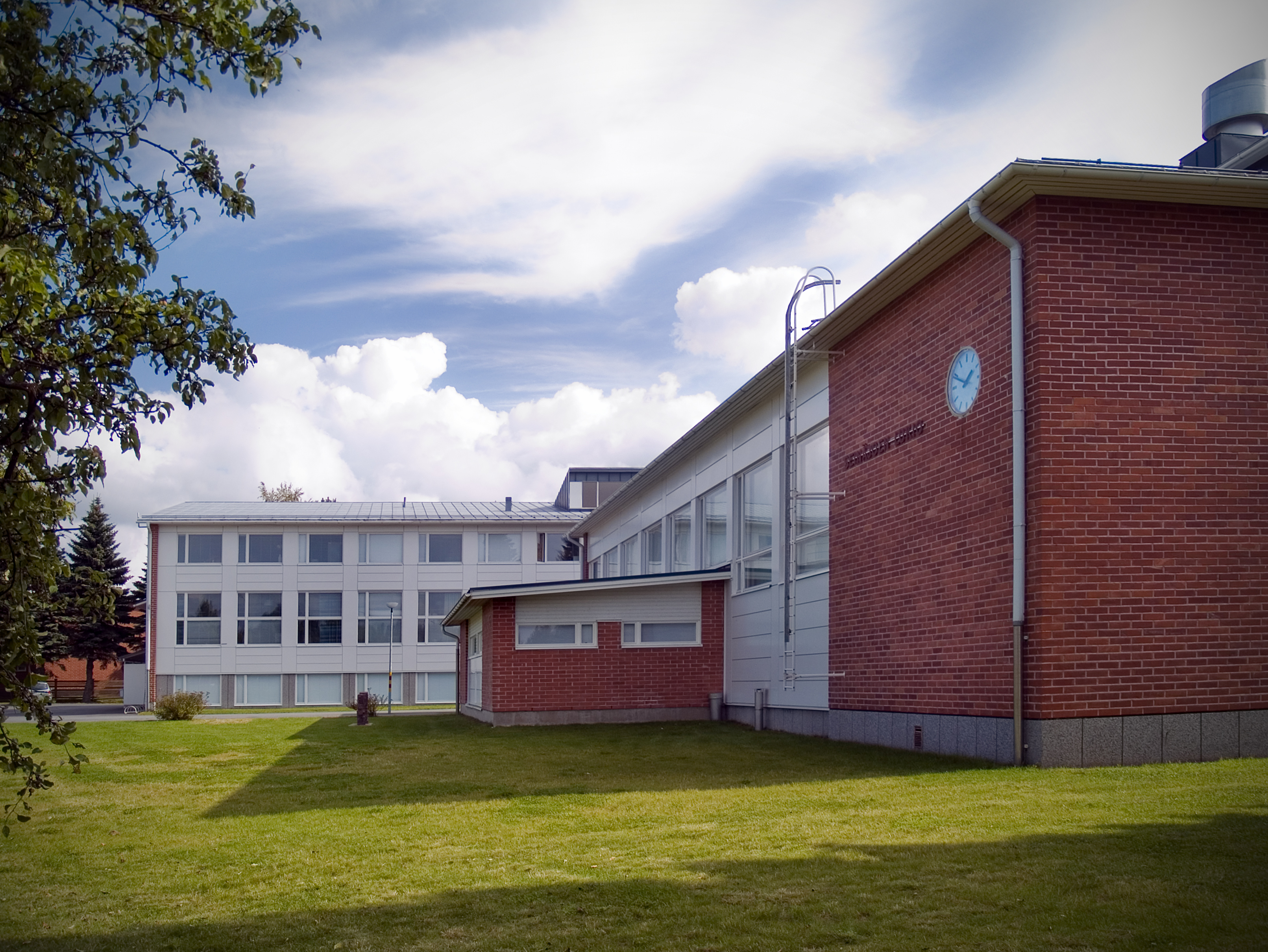 Seinäjoki gymnasium (senior high school) on Kirkkokatu, Seinäjoki, Finland.